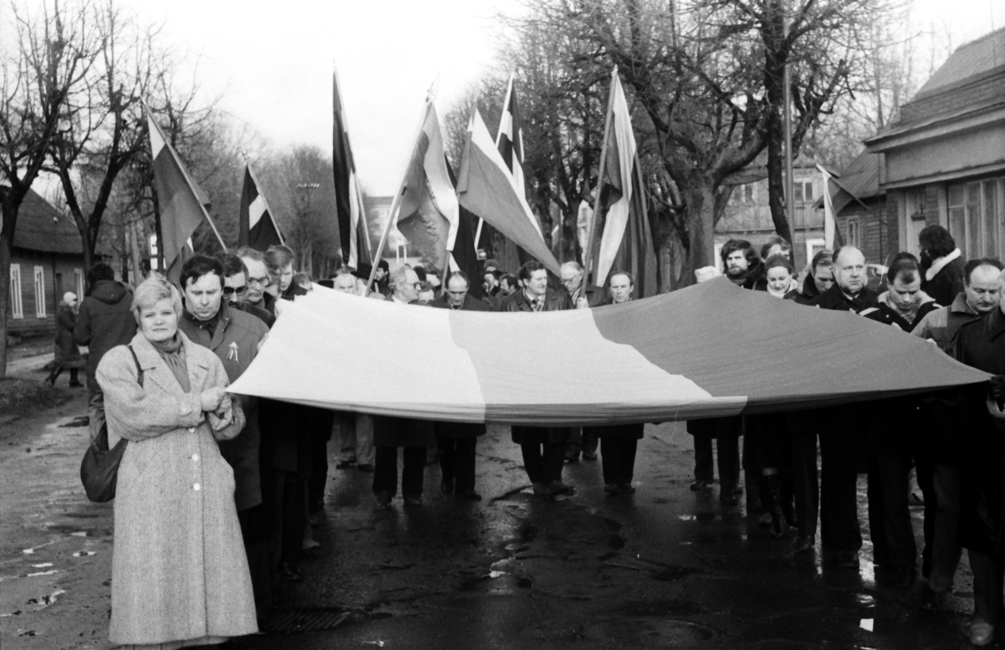 Hoisting of a Lithuanian flag in Šiauliai, 1989-02-16